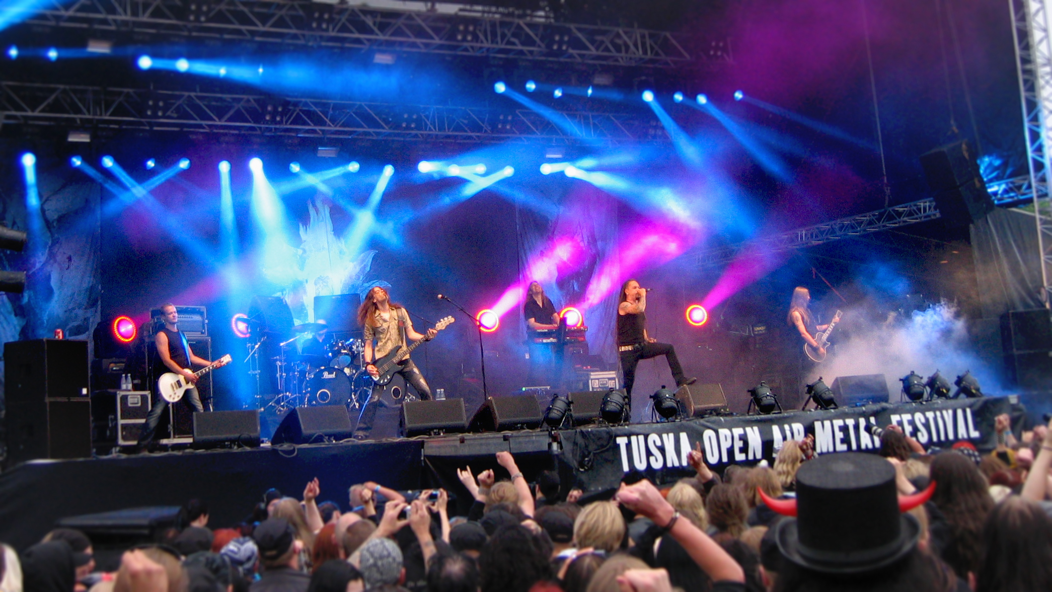 Amorphis playing at Tuska Open Air Metal Festival 2009.